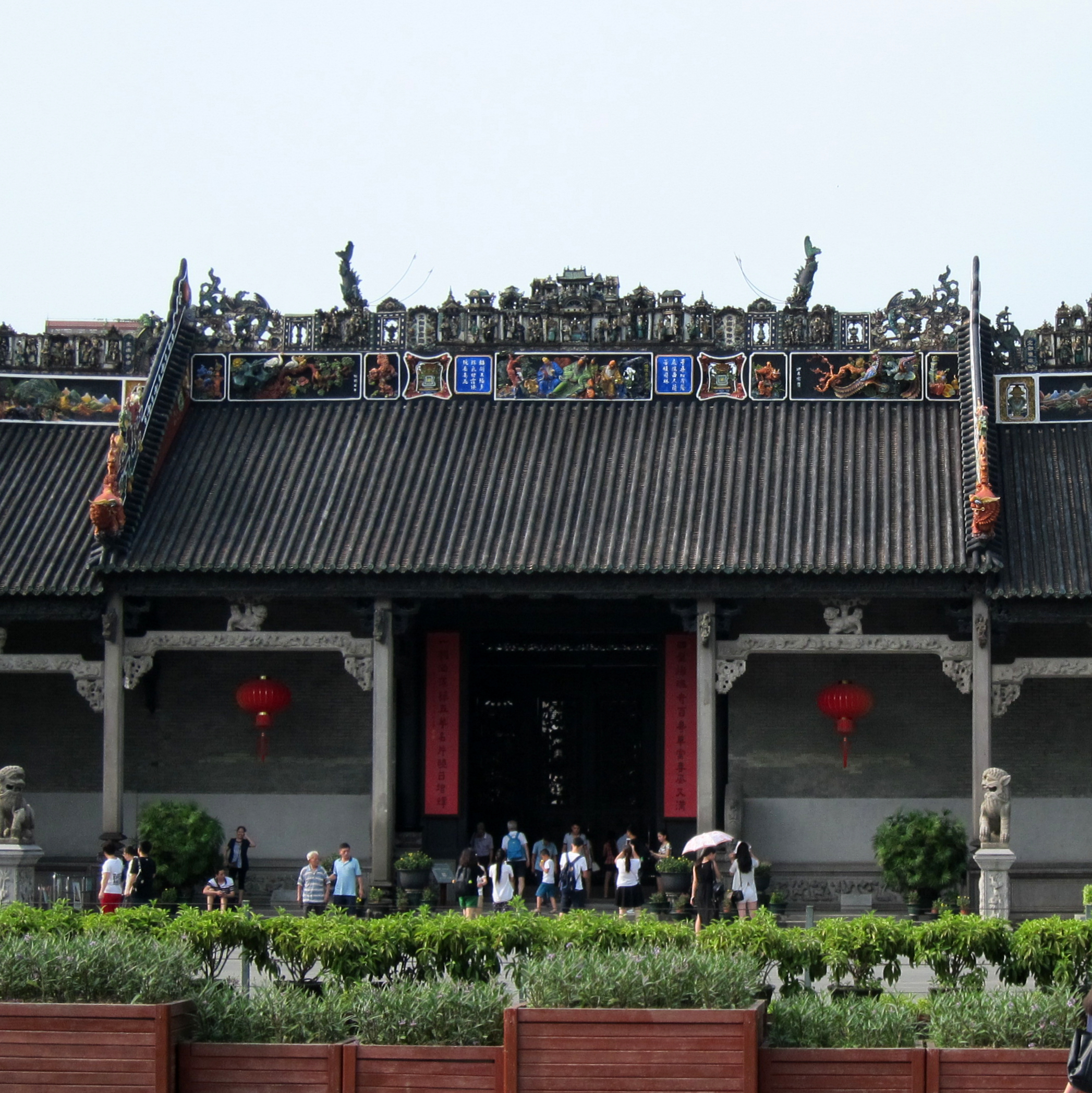 Chen Clan Ancestral Hall